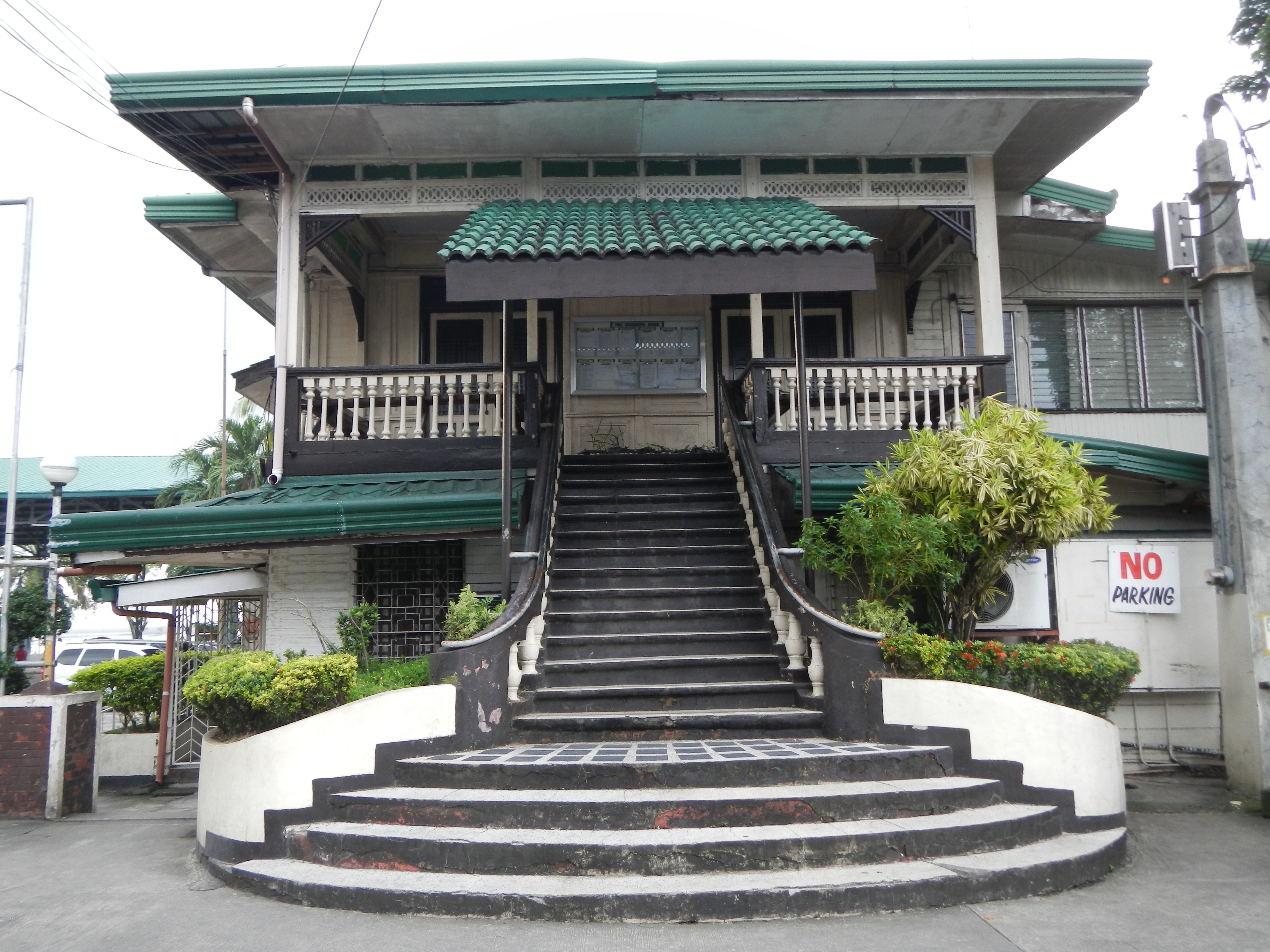 Kgg. Aurelio Almazan C. Park (Liwasang Kabataan) & Old Municipal Building, Town Hall of - Los Baños, Laguna[1] -- The Nature and Science City of Los Baños is a first class urban municipality in the province of Laguna, Philippines - 2010 census, it has a population of 101,884 inhabitants, total land area of 56.5 square kilometers.